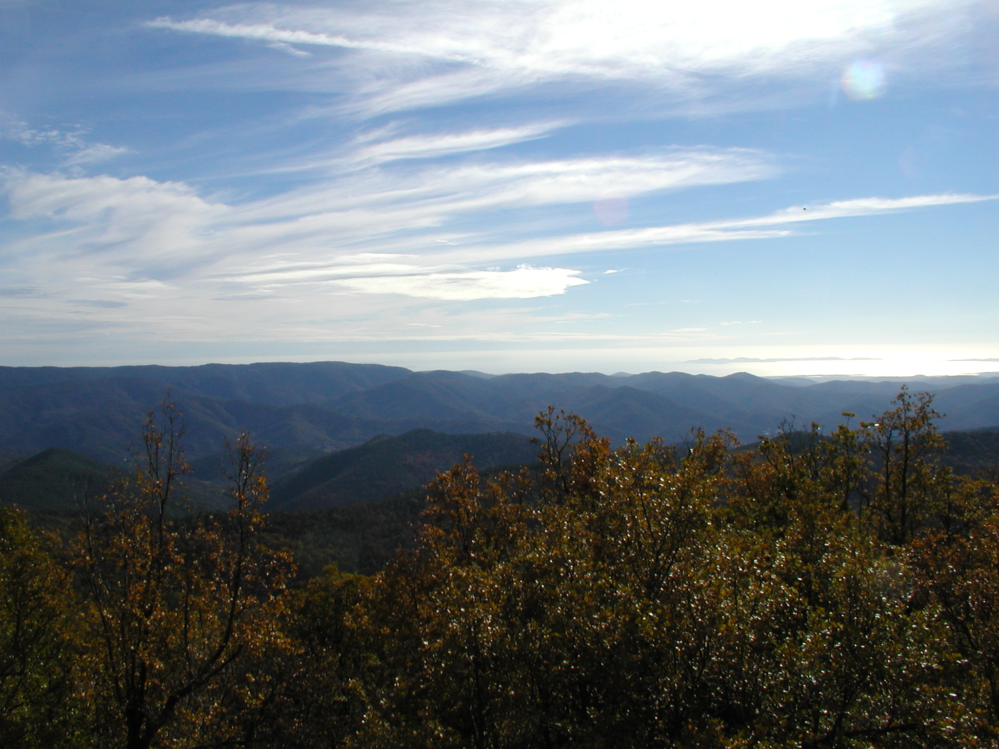 Pignans, Provence (France) - Notre Dame des Anges - View over the Massif des Maures to the Mediterranian Sea